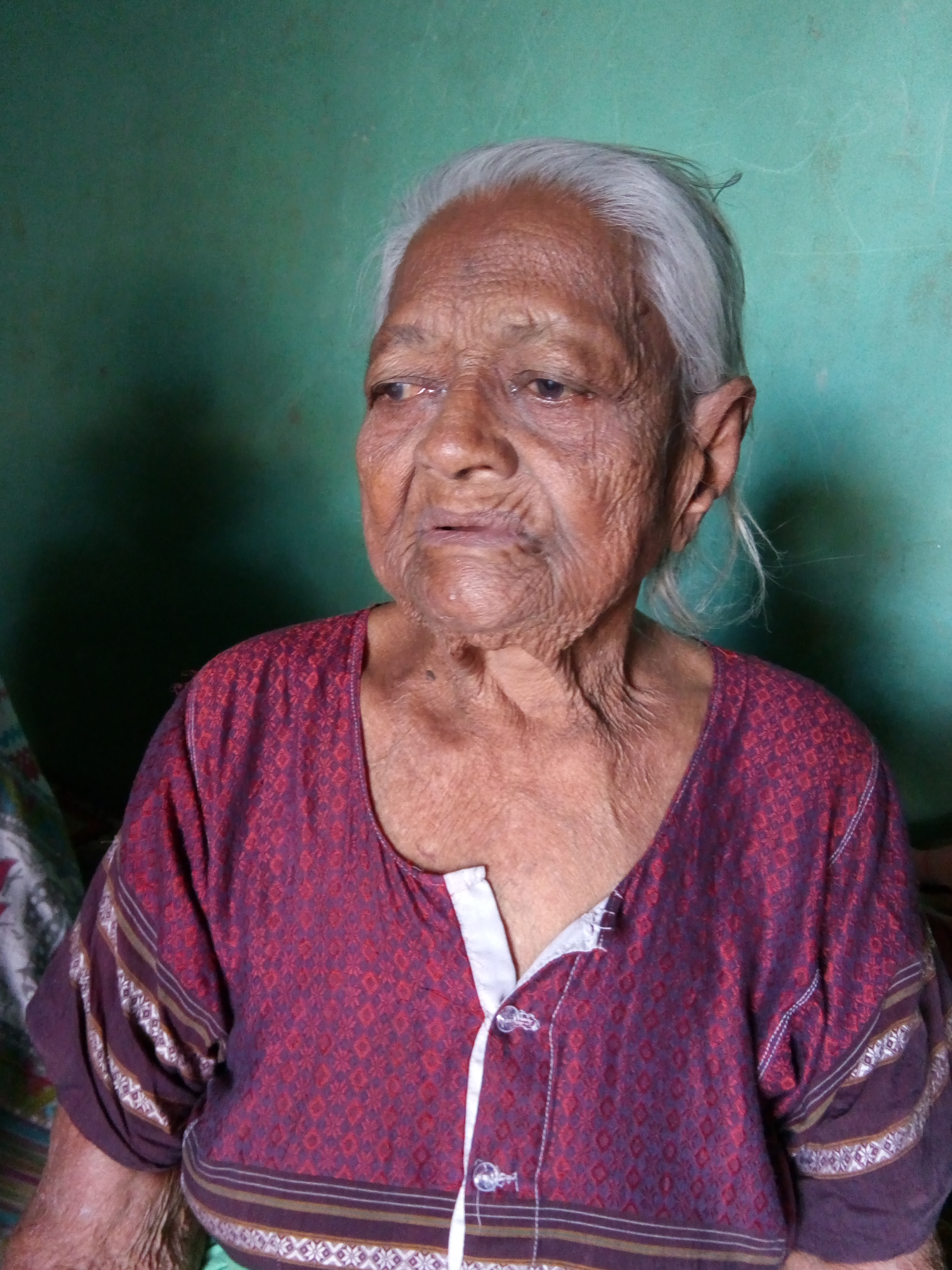 Old women